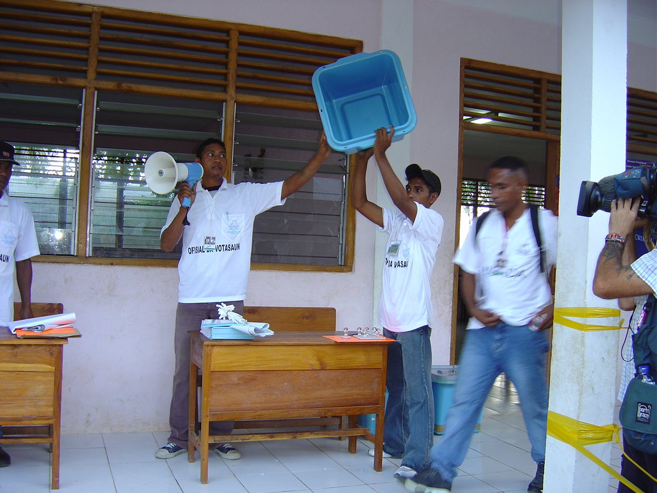 Presidental election 2007